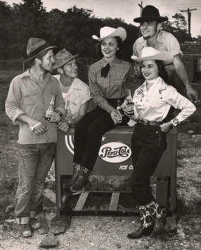 Five students drinking Pepsi at Frontier Fiesta